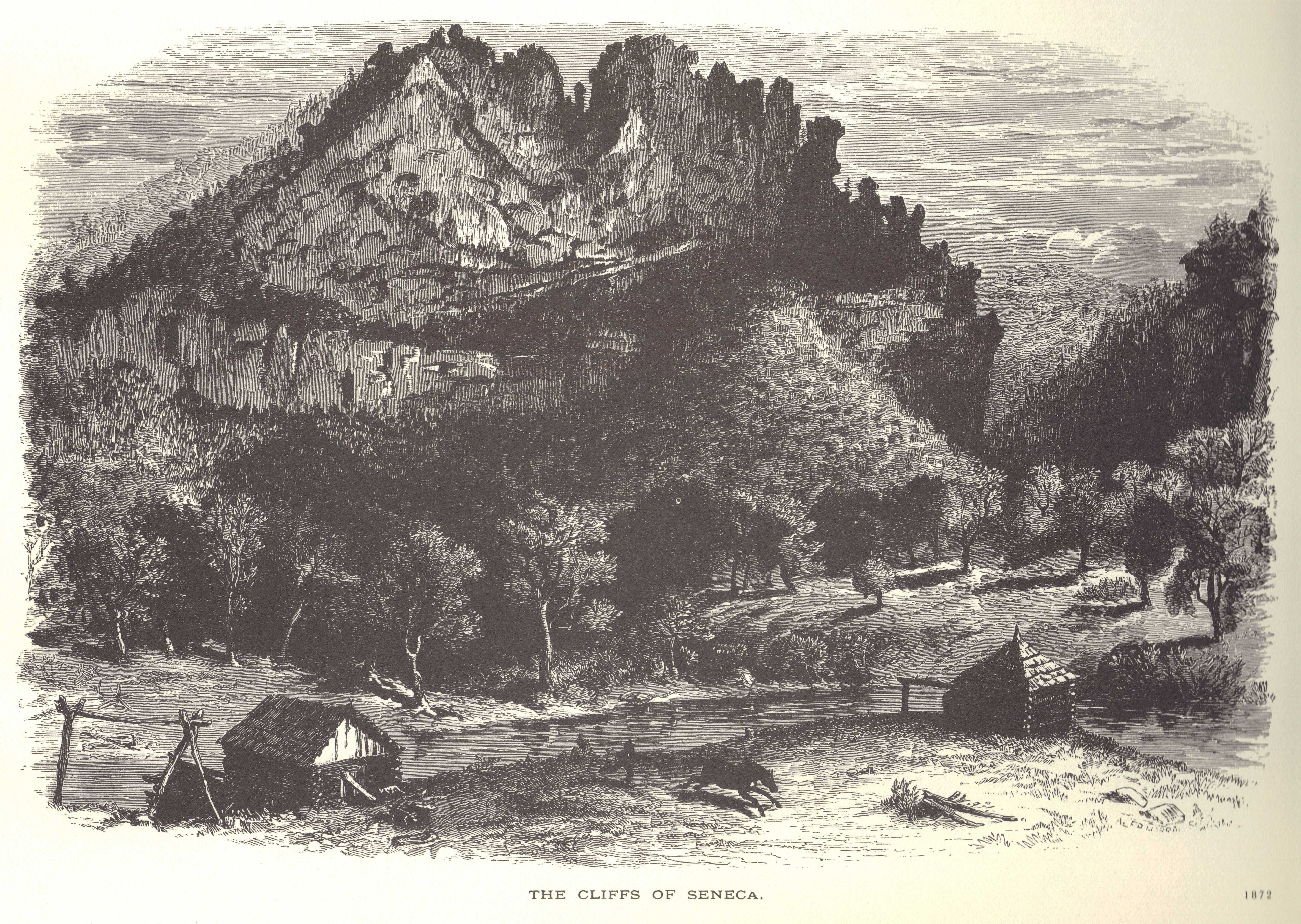 Reproduction of wood engraving: "The Cliffs of Seneca", Pendleton County, West Virginia